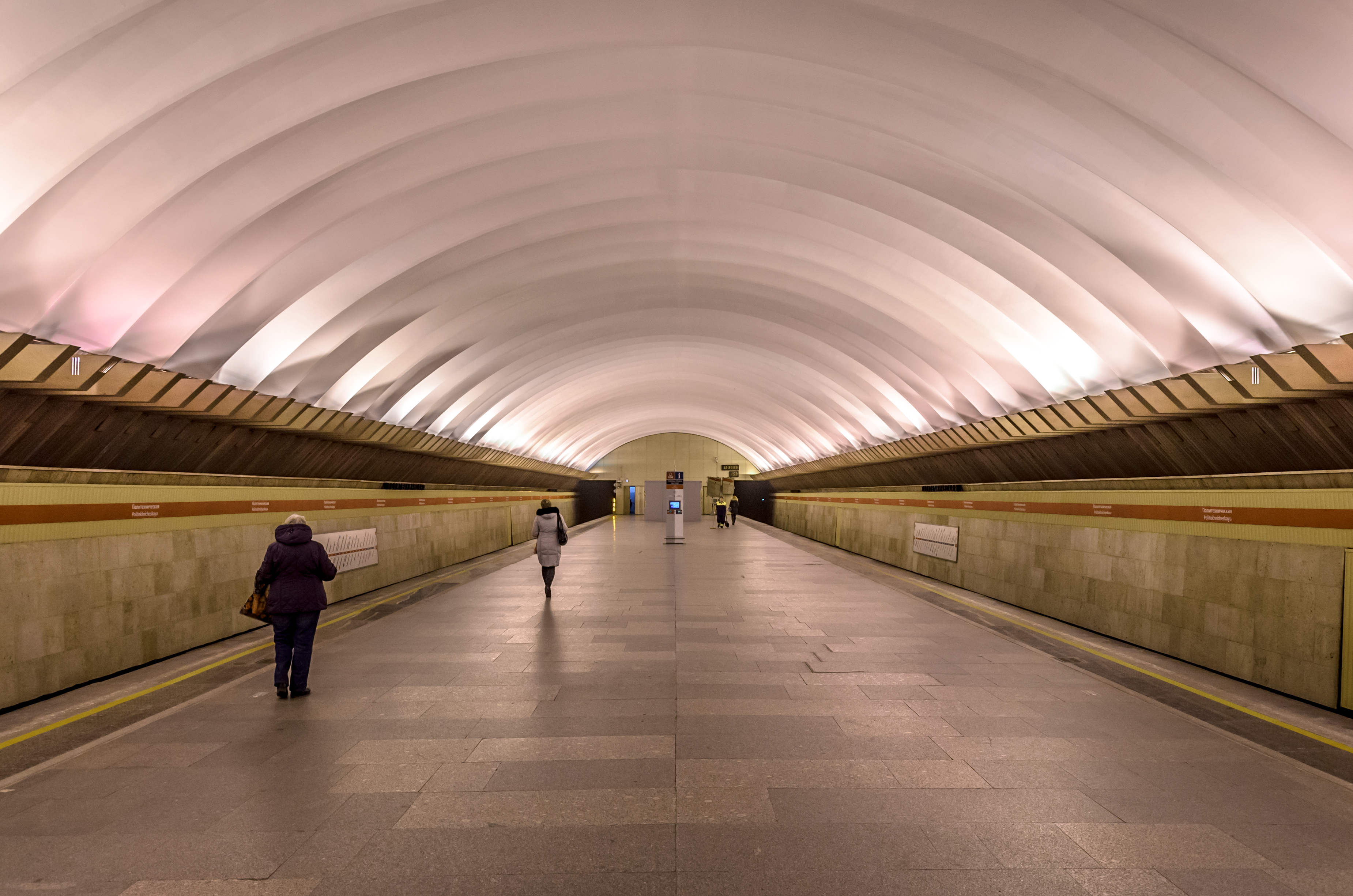 Politekhnicheskaya subway station of Saint Petersburg